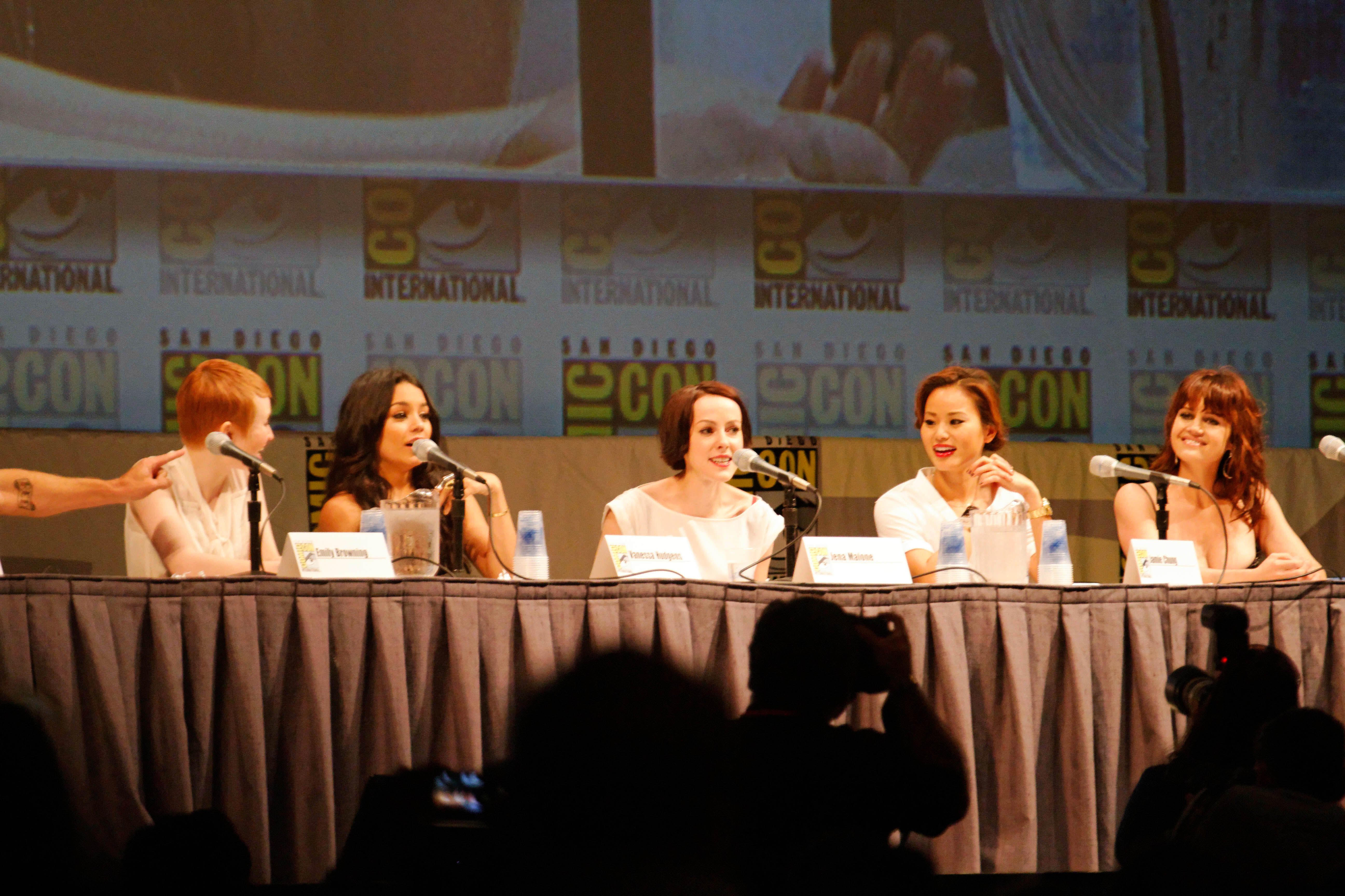 Sucker Punch panel at the 2010 San Diego Comic-Con International with Emily Browning, Vanessa Hudgens, Jena Malone, Jamie Chung and Carla Gugino.